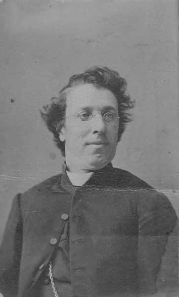 PH Coll 281.6 Father Prefontaine (1838-1909), a French Canadian Catholic priest, arrived in Seattle in 1867. Prefontaine founded Seattle's first Catholic church, Our Lady of Good Help, on the corner of 3rd Avenue and Washington Street, which was dedicated in 1870. Subjects (LCSH): Prefontaine, Francis Xavier; Catholic Church--Clergy; French-Canadians--United States